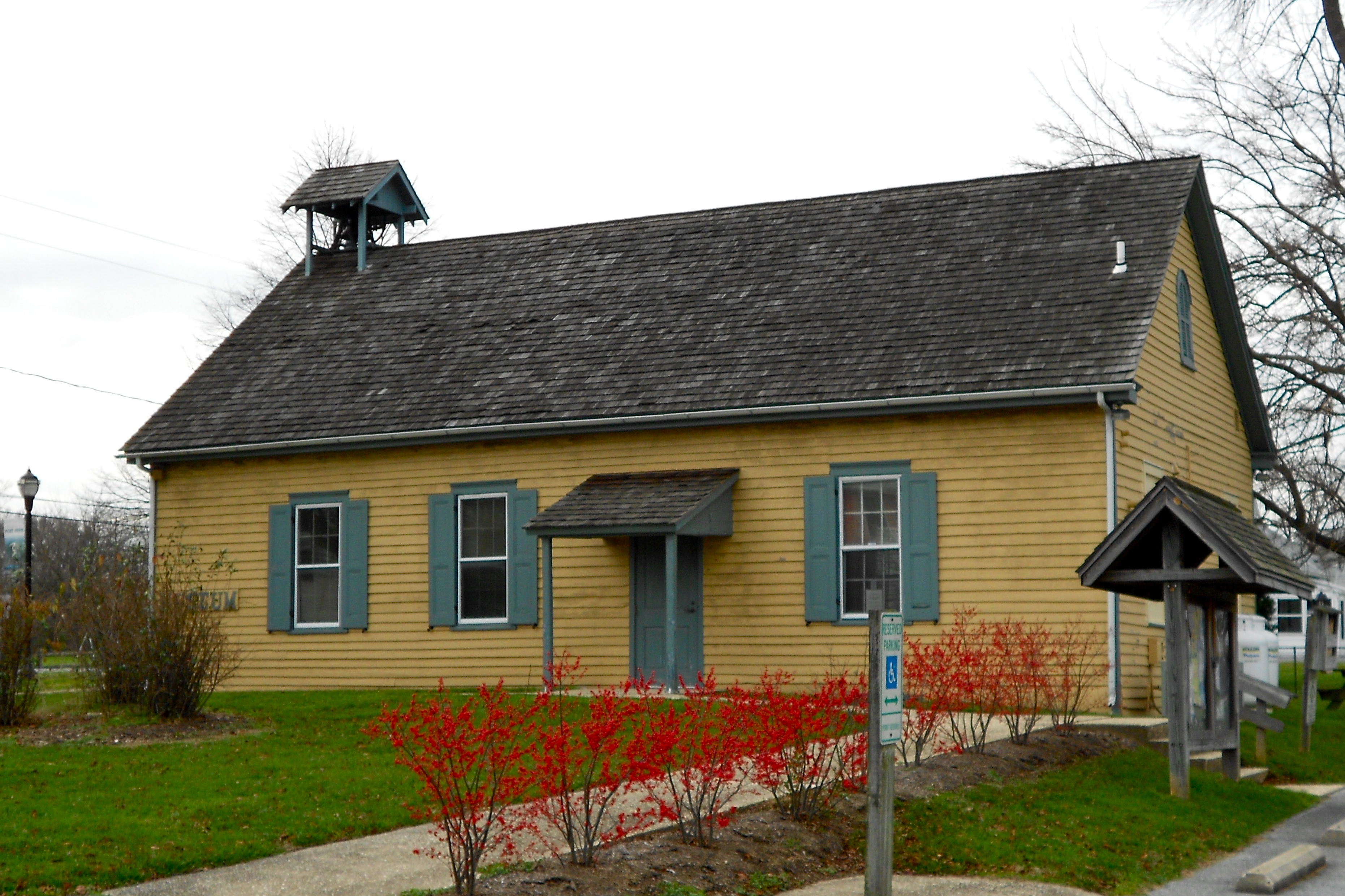 Port Penn Schoolhouse, now a museum/interpretive center in the Port Penn Historic District (on the NRHP since November 20, 1978) along Delaware Route 9 in Port Penn, DE